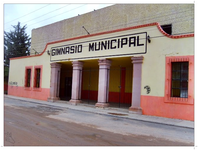 gimnasio